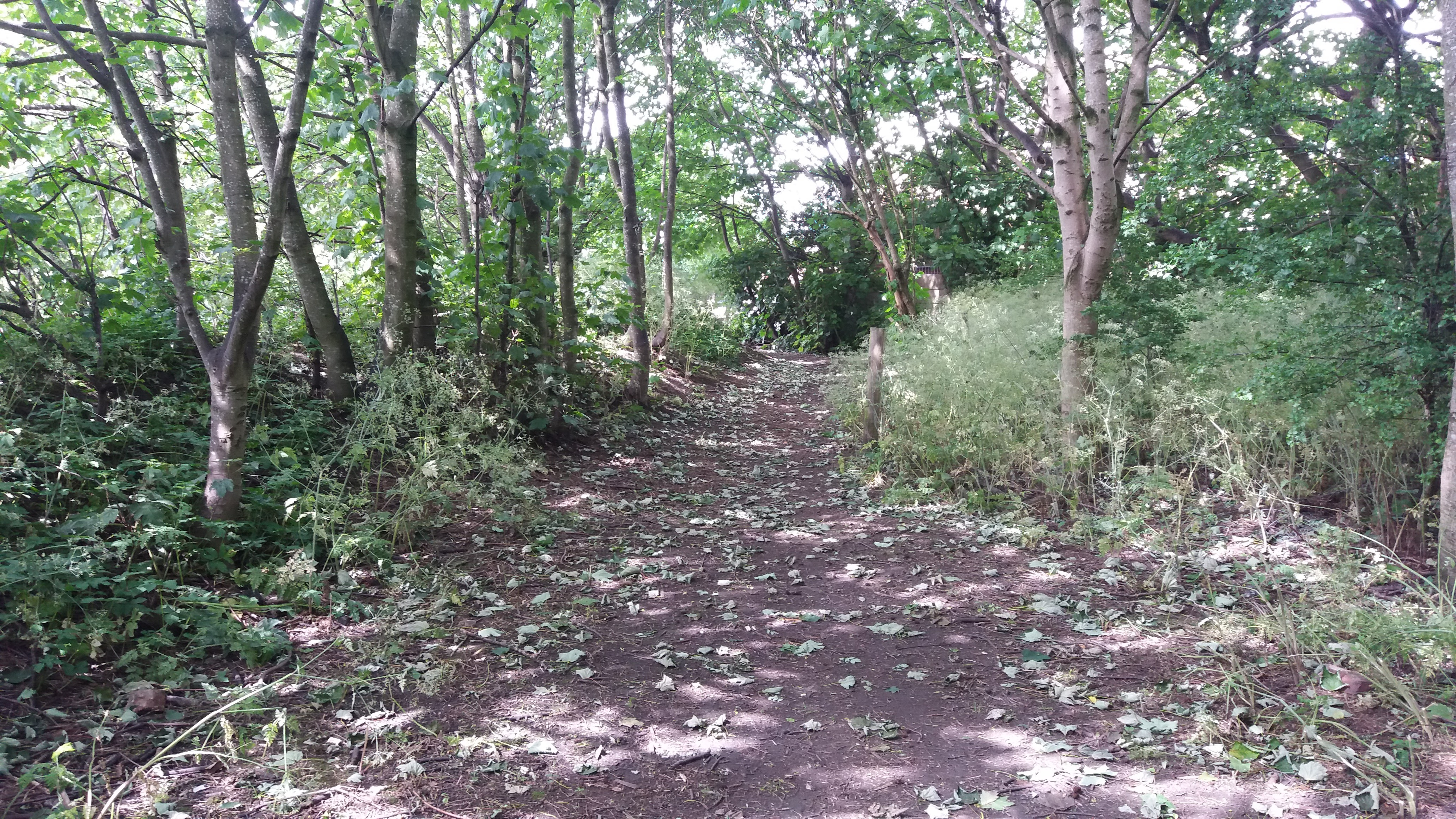 My Own.